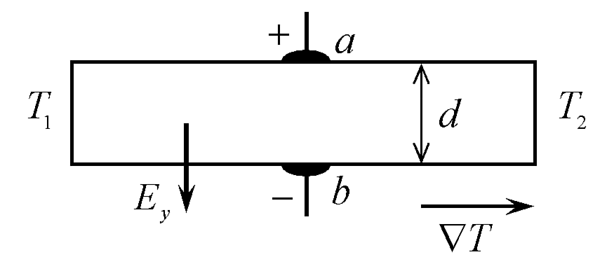 Nernst–Ettingshausen effect (magnetic field perpendicular to image plane)